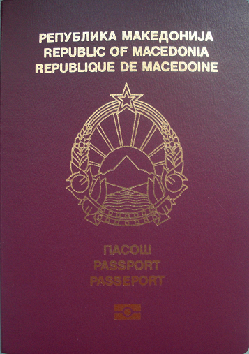 Macedonian passport In the new version (2010) the red star is removed from the coat of arms